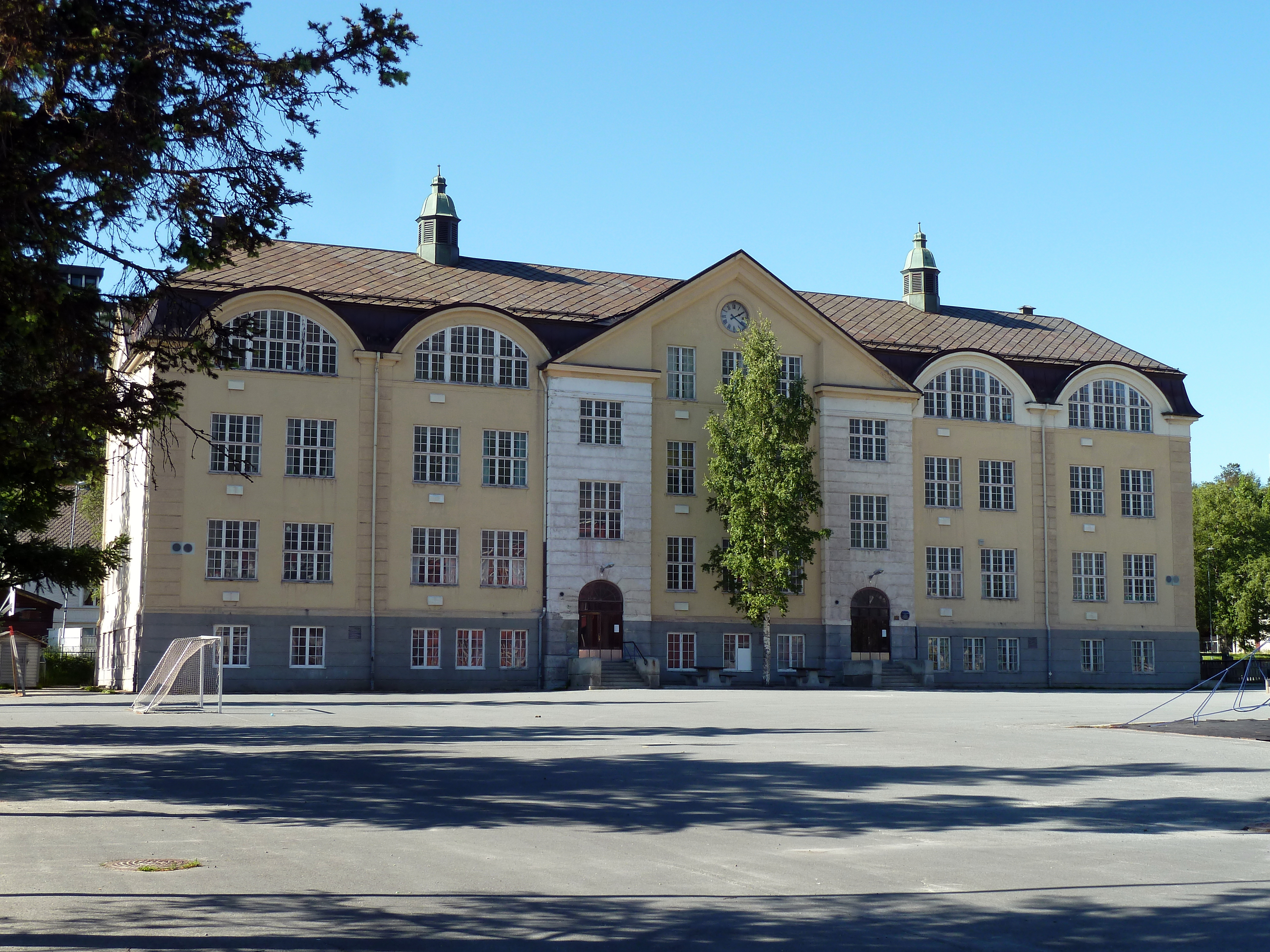 School-building in Narvik, Norway (Frydenlund school)